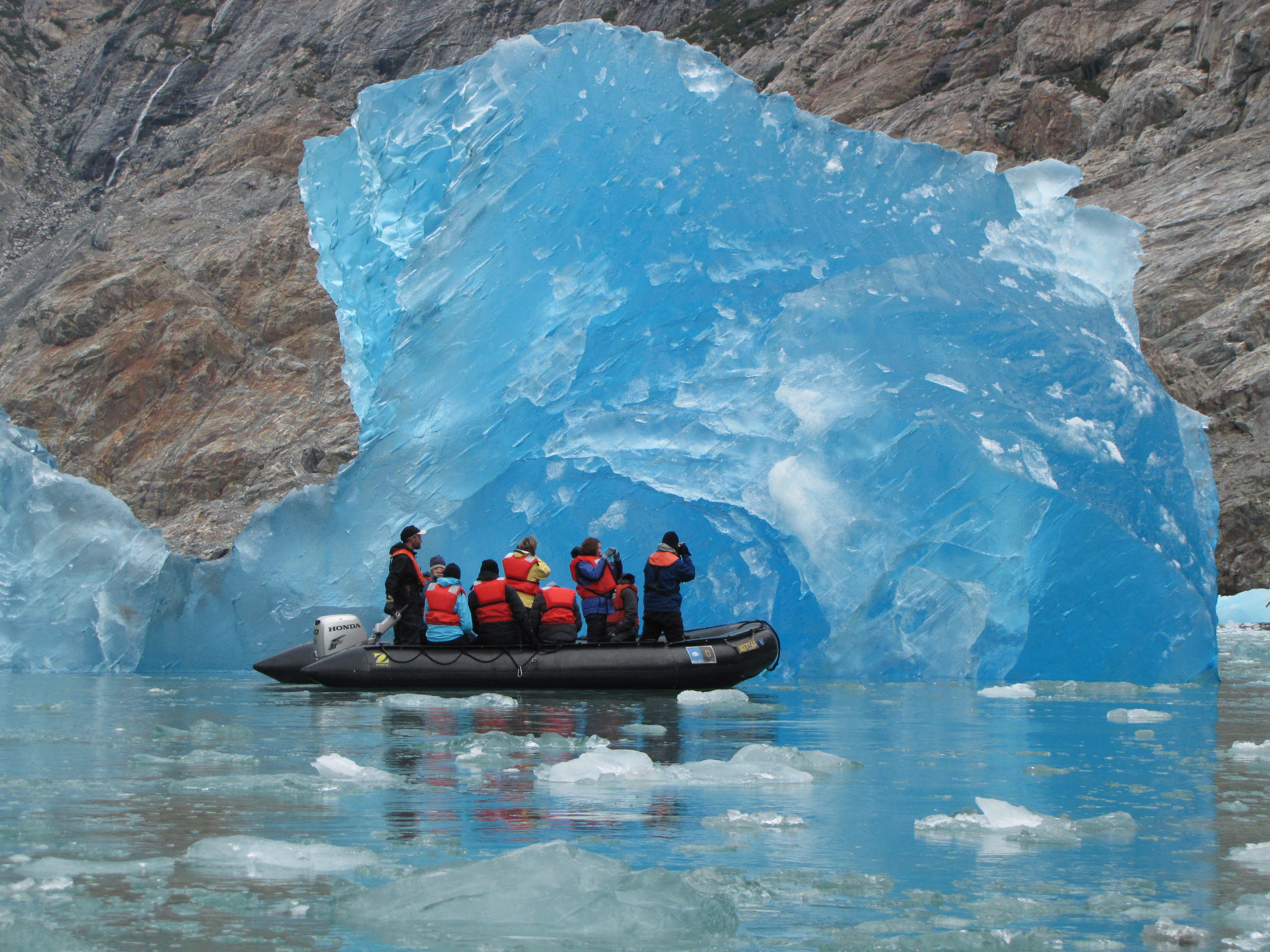 Tourists from an Alaska cruise ship view a blue iceberg up close. This photo was taken on August 28, 2010 using a Canon PowerShot SX20 IS.